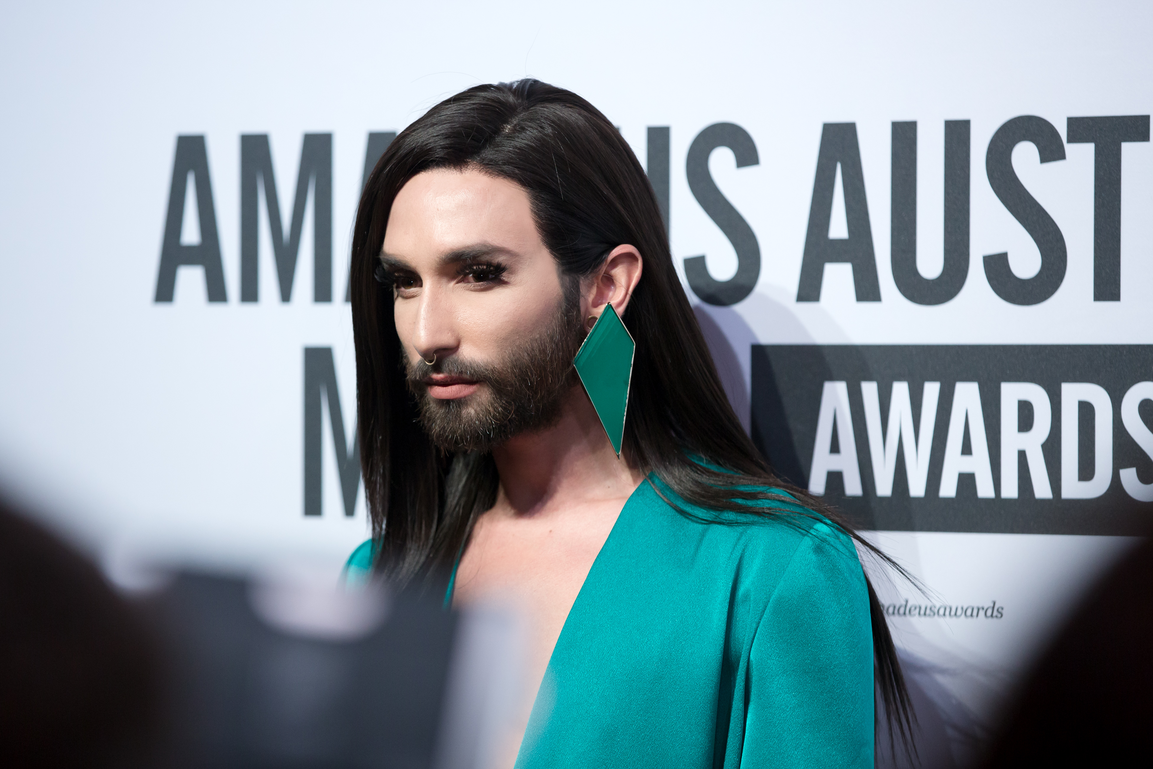 Conchita at the Amadeus Austrian Music Award 2015 at Volkstheater in Vienna